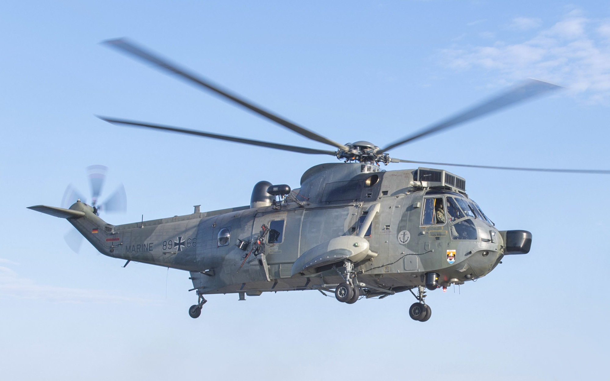 180603-N-PC620-0141 BALTIC SEA (June 3, 2018) A German Navy Sea King Mark 41 helicopter departs the flight deck of the Harpers Ferry-class dock landing ship USS Oak Hill (LSD 51) during exercise Baltic Operations (BALTOPS) 2018 June 3. BALTOPS is the premier annual maritime-focused exercise in the Baltic Region and one of the largest exercises in Northern Europe enhancing flexibility and interoperability among allied and partner nations. (U.S. Navy photo by Mass Communication Specialist 3rd Class Michael H. Lehman/Released)